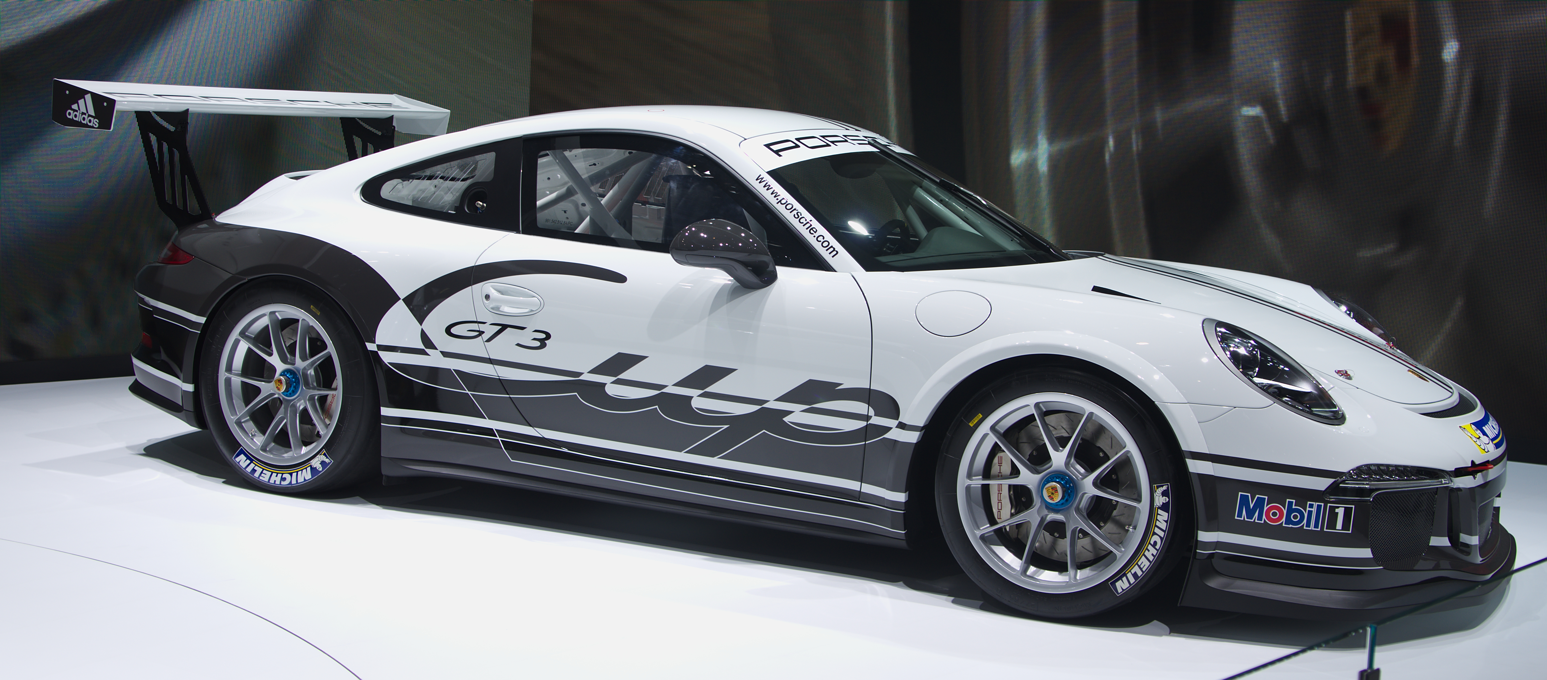 Geneva MotorShow 2013 - Porsche GT3 Cup 1